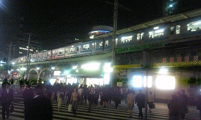 Yurakucho Station, JR East, Japan